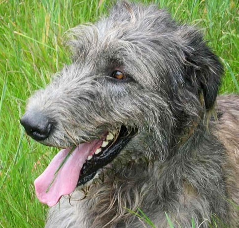 Irish Wolfhound Viva Verdi, 2006, propr. D. Fouet